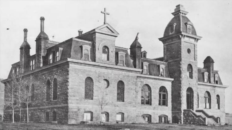 The Ursuline Convent and Girls' School at St. Peter's Mission near Cascade, Montana, in the United States, in 1892 shortly after its completion. St. Peter's was founded by priests belonging to the Society of Jesus (the Jesuits), a Roman Catholic men's religious order. It was established at Bird Tail Rock in 1871 after several previous locations were abandoned. Ursuline nuns joined the mission in October 1884 to assist in running the mission and teaching Native American children. In 1884, the mission consisted of two log buildings -- a chapel with a bell tower connected to a common sleeping area for priests, and a lower structure which consisted of a sleeping area for nuns and a kitchen. The cornerstone for the stone convent was laid on September 9, 1888, and the structure occupied on January 1, 1892. It burned to the ground in 1918.